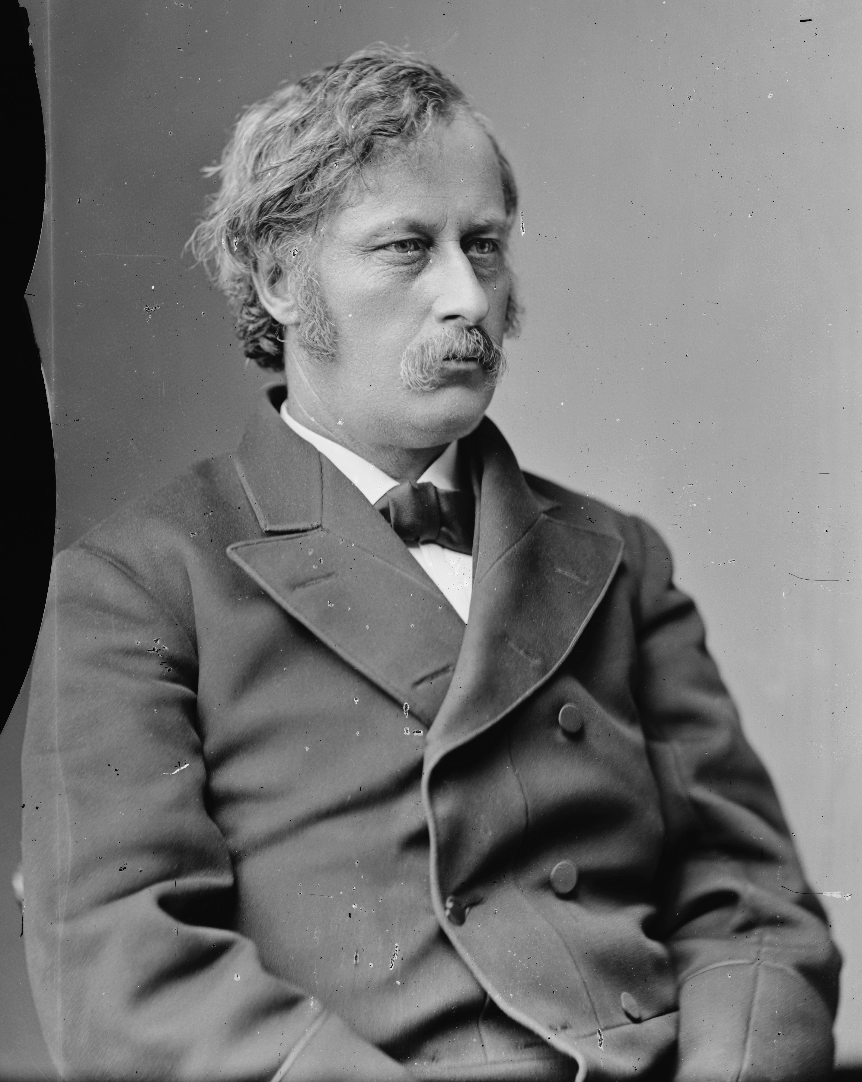 Algernon Paddock. Library of Congress description: "Paddock, Hon. Algernon Sidney of Neb.".